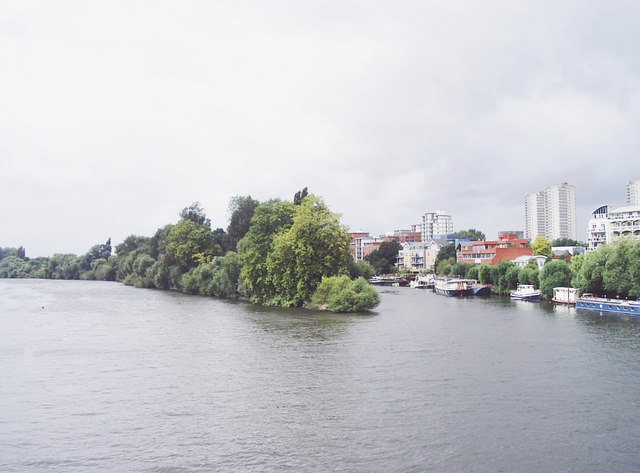 Brentford Ait This is the eastern end of the wooded island of Brentford Ait taken from Kew Bridge.